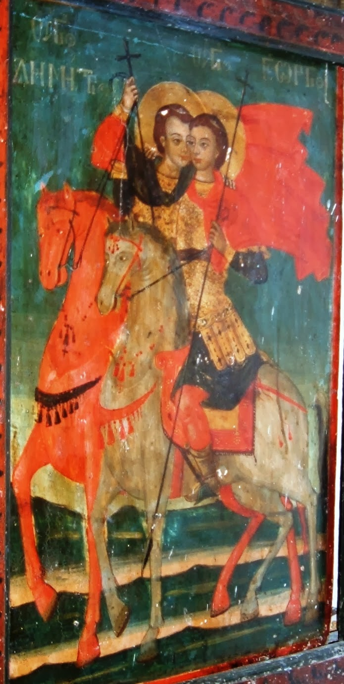 Saints Demetrius and George Icon in Asproneri (Shkrapari).